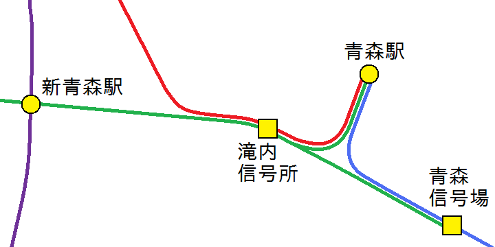 A route map of the neighborhood of Aomori Station